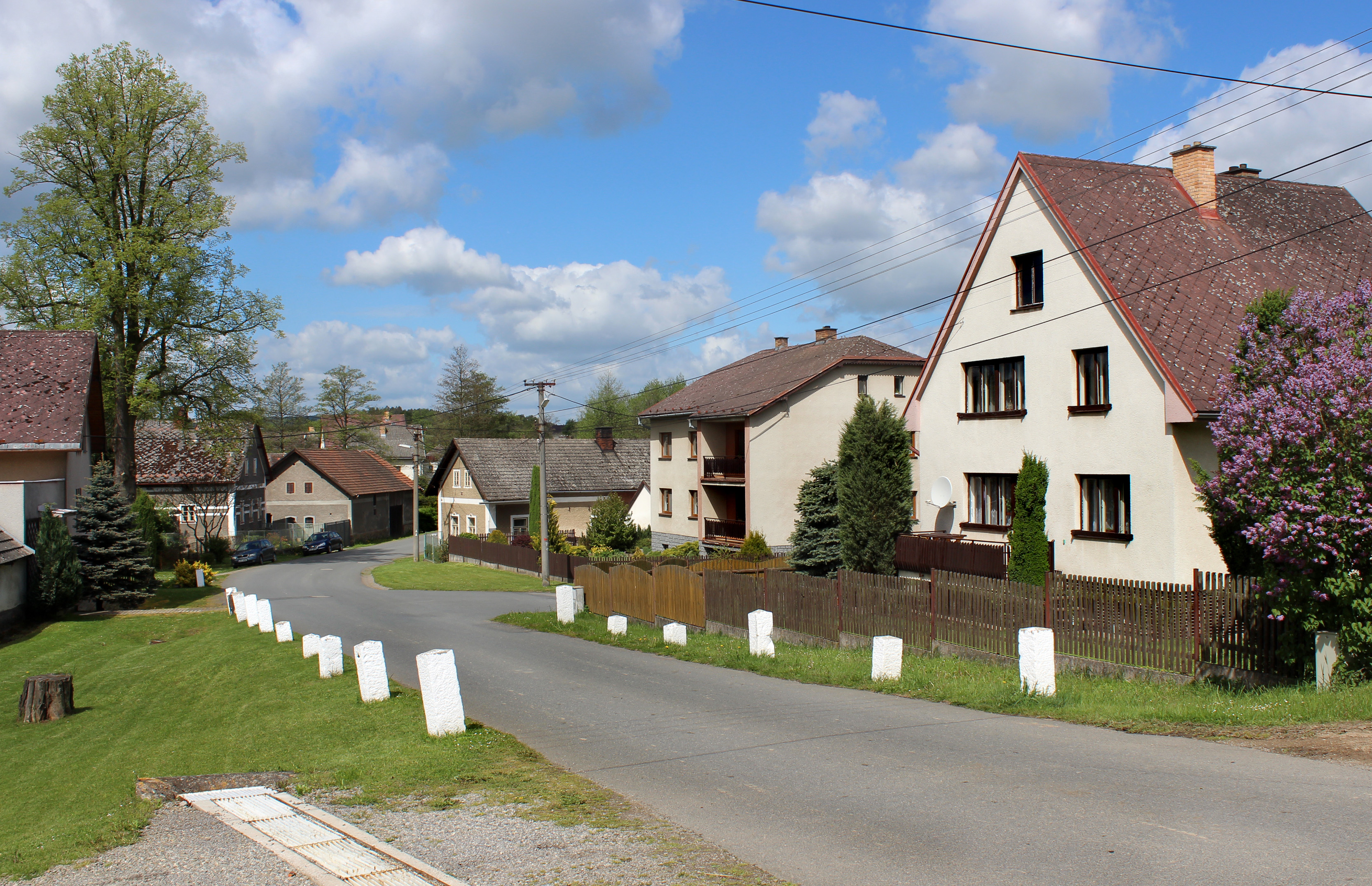 East part of Věžnice village, Czech Republic